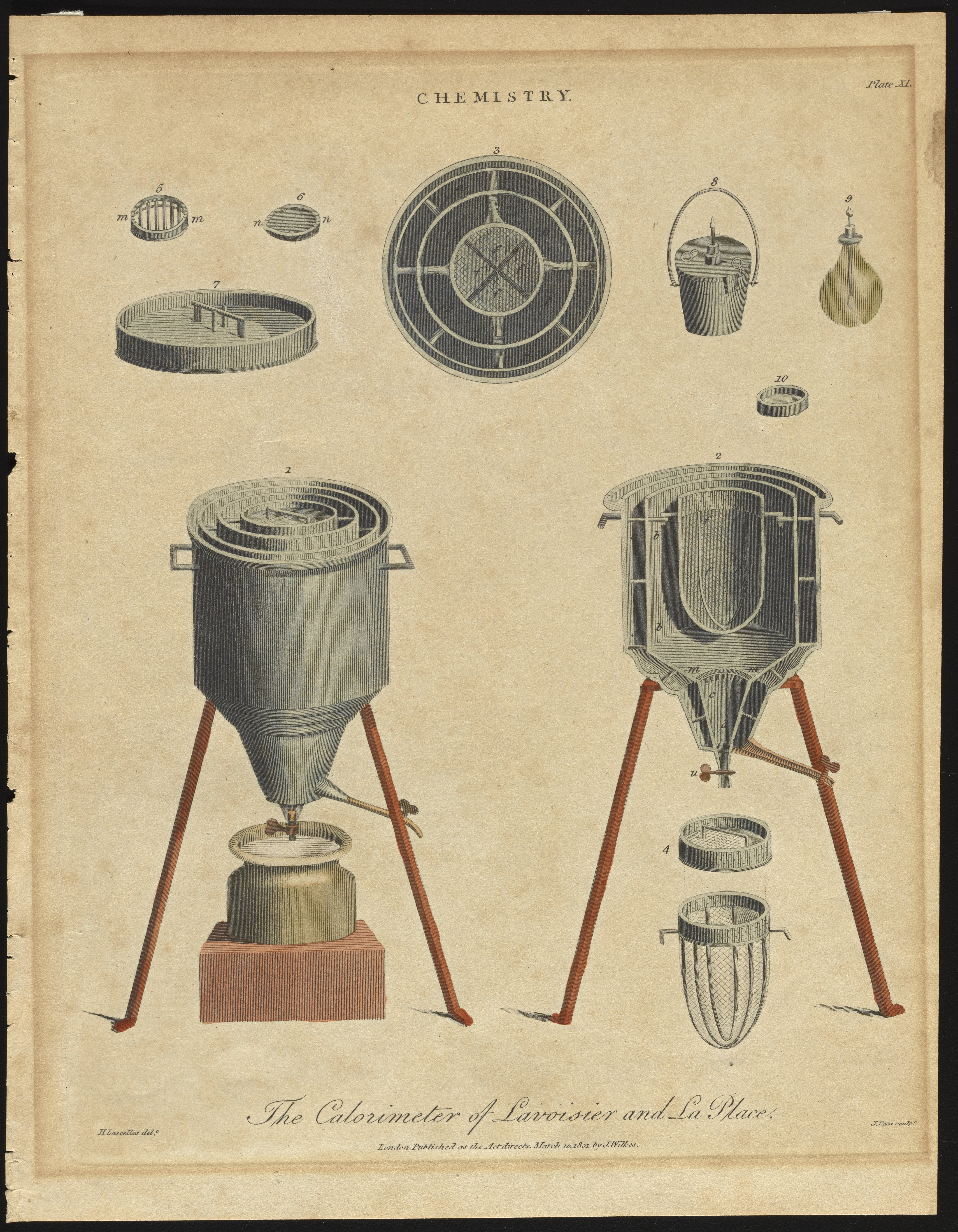 “Plate XI: The Calorimeter of Lavoisier and La Place.” Hand-colored engraving by J. Pass after the drawing by Henry Lascelles for the section on "Chemistry." From Volume 4 of the Encyclopaedia Londinensis; or, Universal Dictionary of Arts, Sciences, and Literature, published by John Wilkes. London, England: Wilkes, John, of Milland House, Sussex, March 10, 1801. Wove paper.